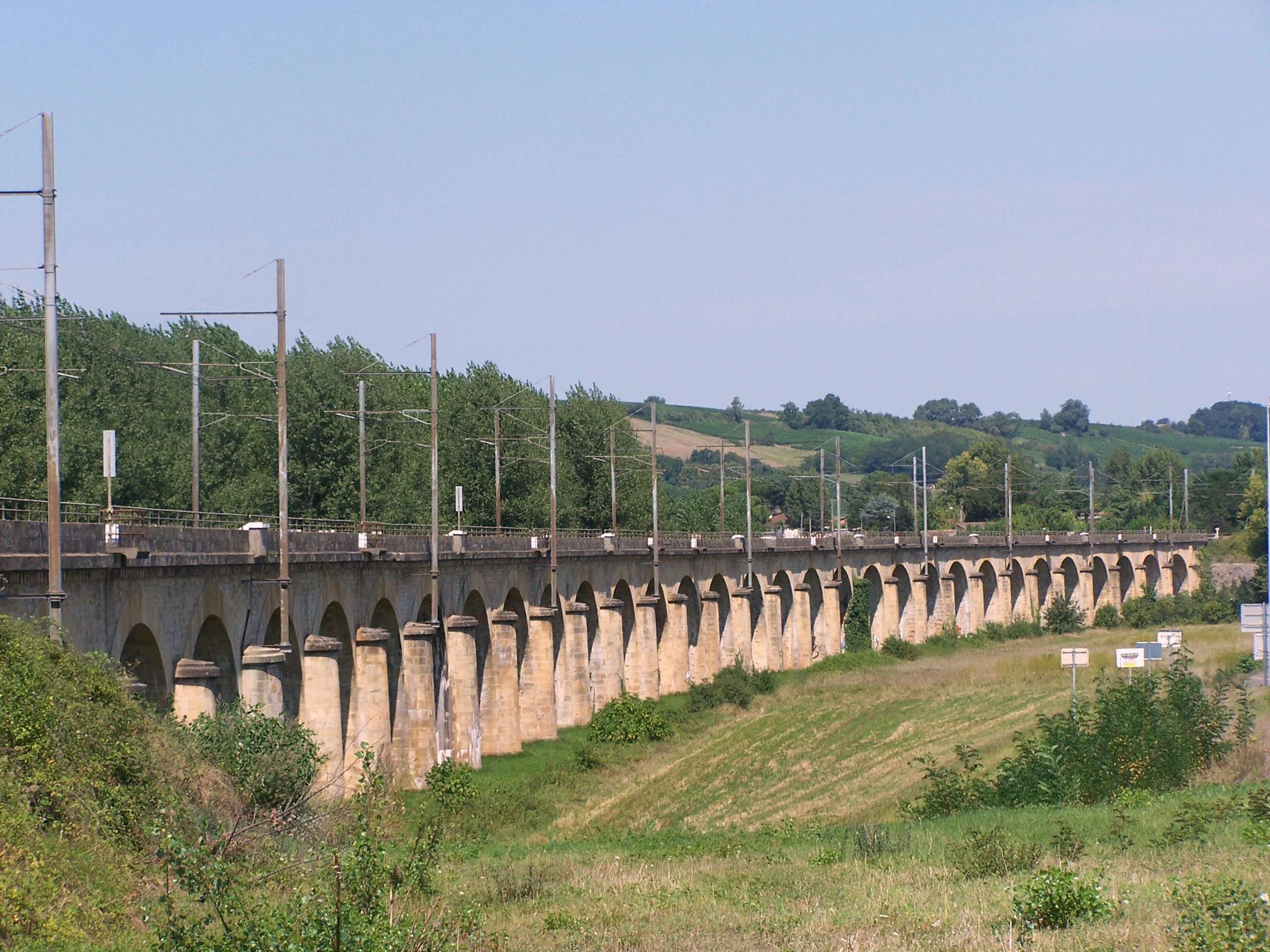 Railway bridge in Saint-Macaire (Gironde, France)